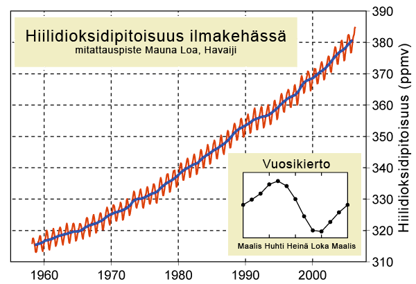 A Finnish version of a figure showing the history of atmospheric carbon dioxide concentrations as directly measured at Mauna Loa, Hawaii.